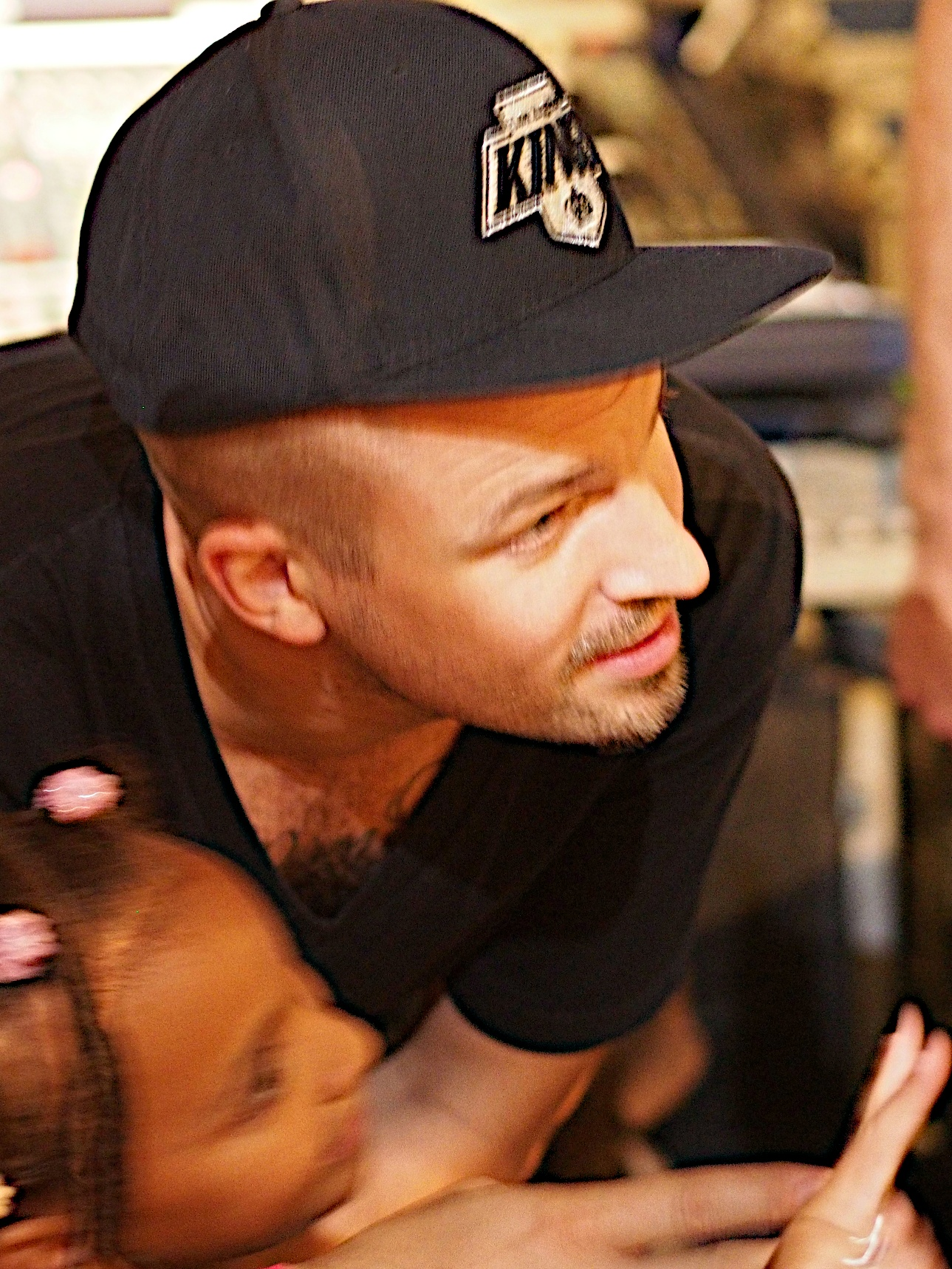 Stress backstage at the Openair auf dem Bundesplatz 2012, Bern, Switzerland